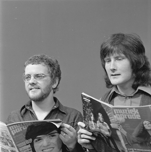 Stealers Wheel in AVRO's TopPop (Dutch television show) in 1973